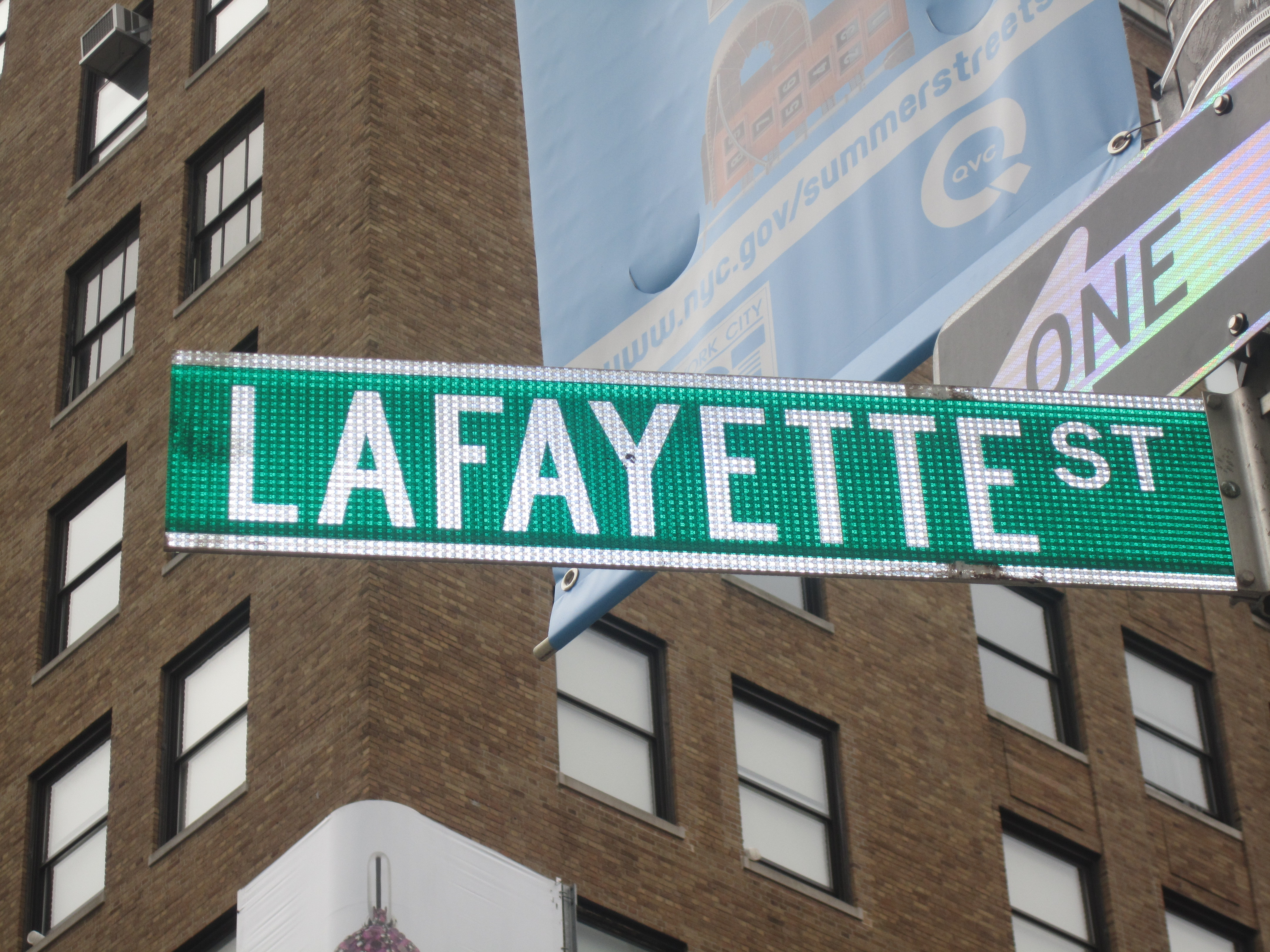 I took photo with Canon camera in lower Manhattan of Lafayette Street sign.